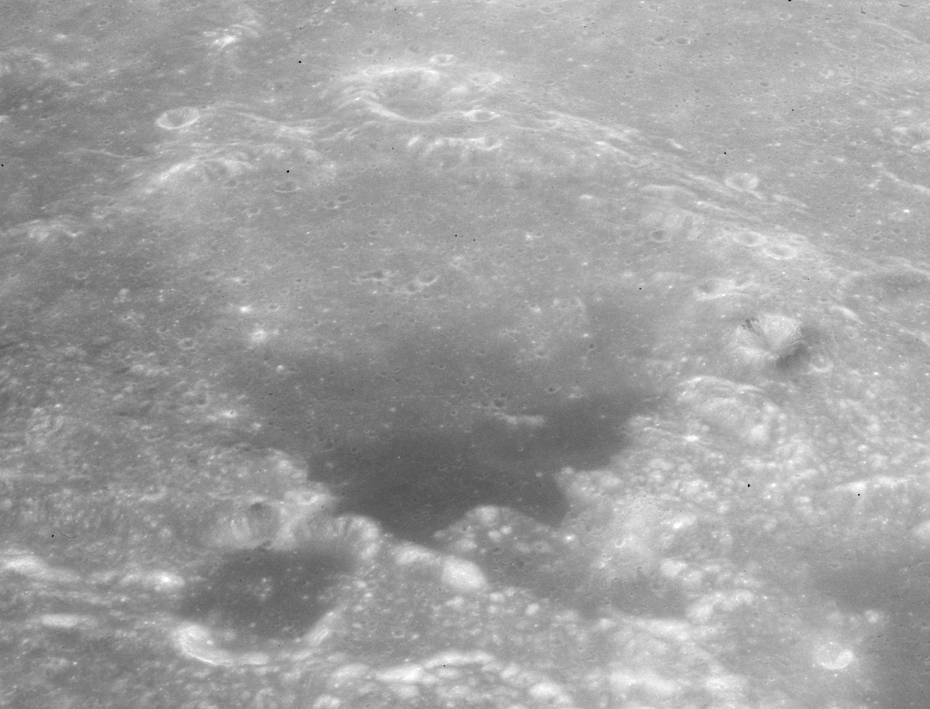 Oblique view of Julius Caesar, on the moon. Facing south.